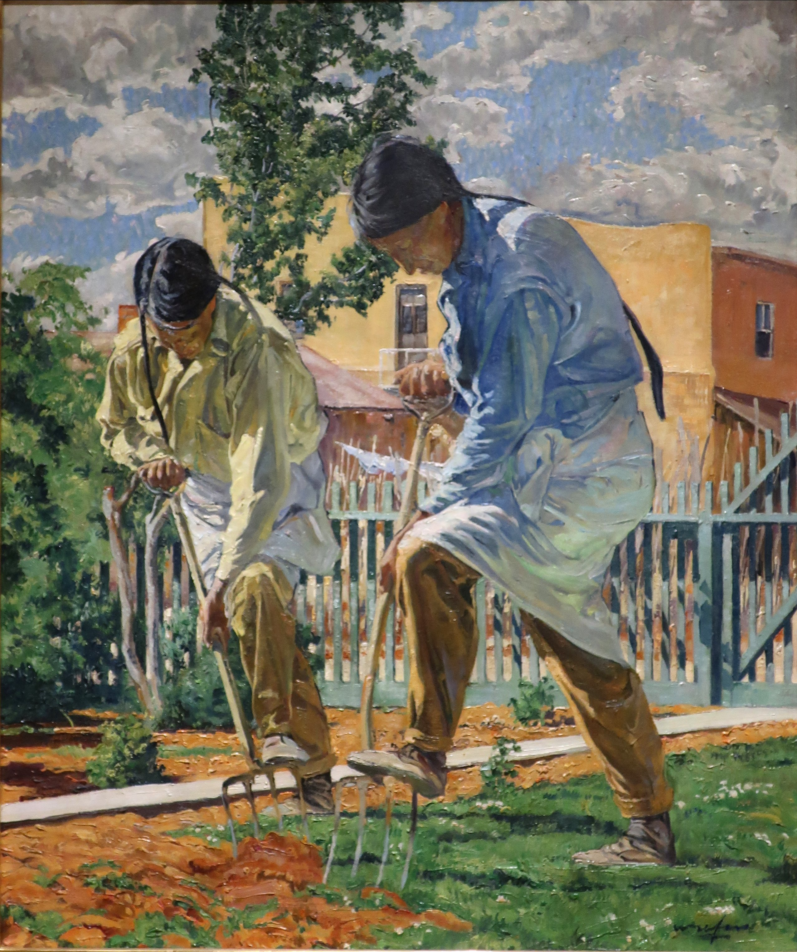 The Garden Makers by Walter Ufer, 1923, oil on canvas, Phoenix Art Museum